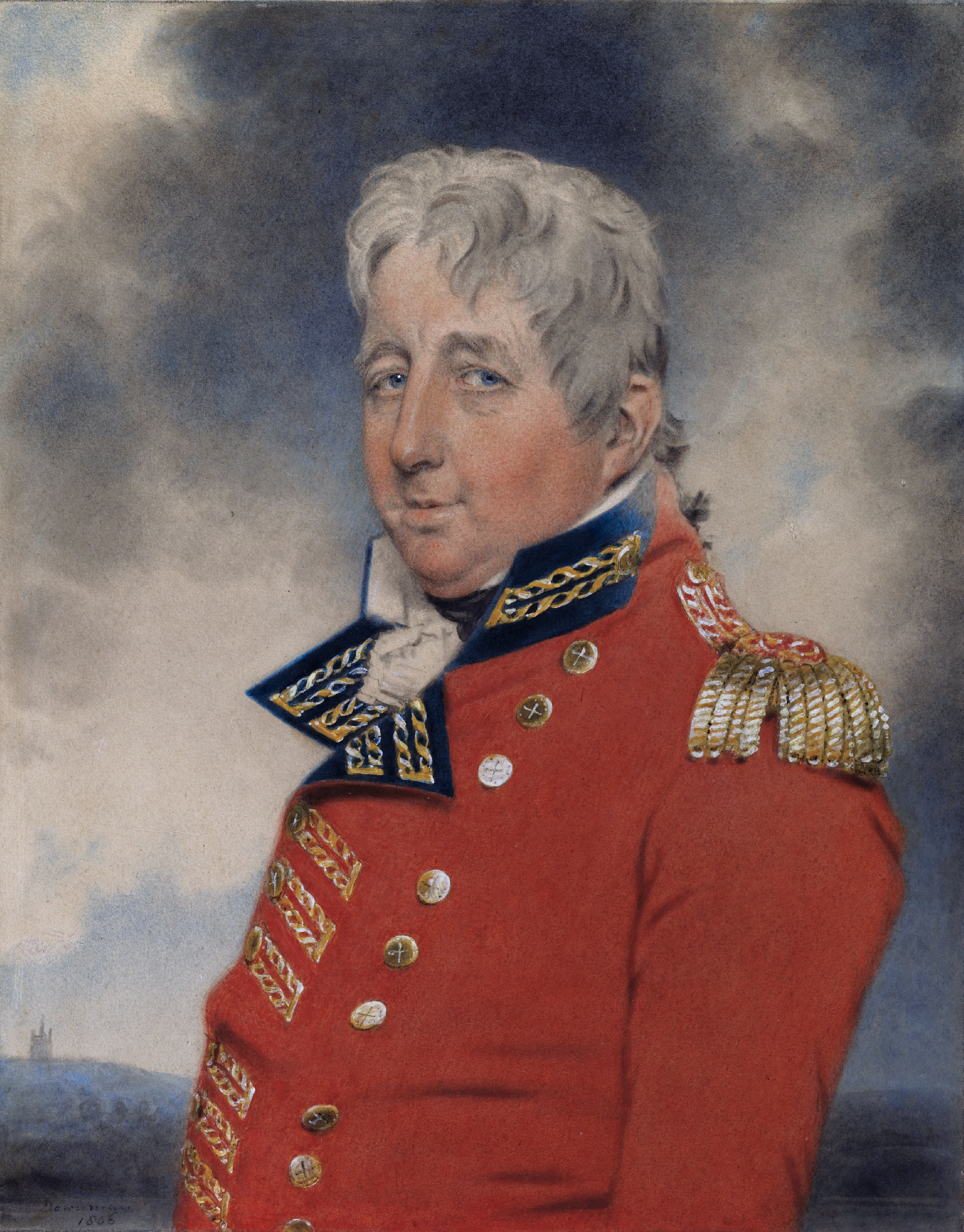 Lieutenant-General Richard England (ca 1750-1812) watercolour over pencil, heightened with grey wash and bodycolour 37.9 x 30.7 cm signed l.l.: Downman / 1806